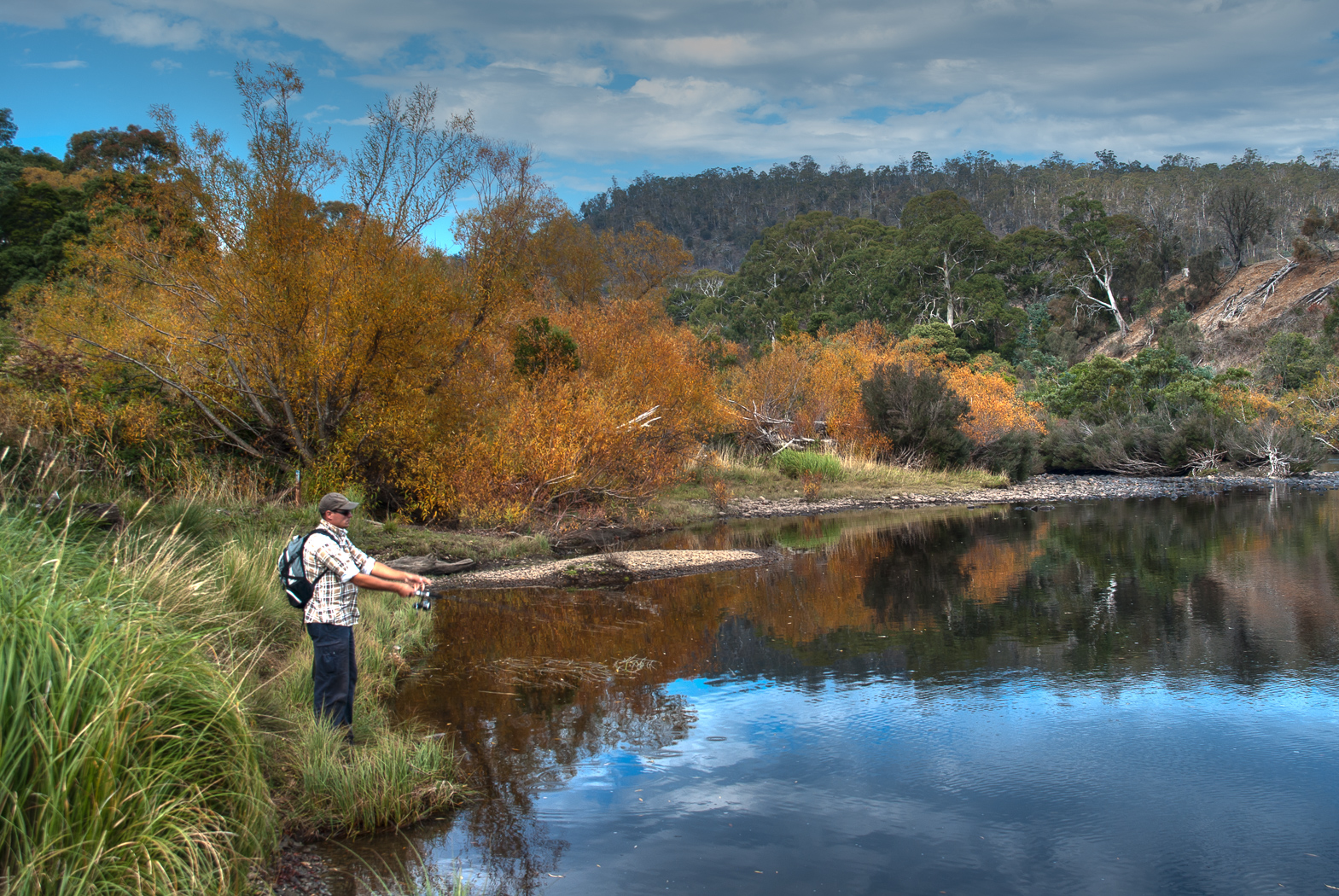 Fishing for trout in the Derwent River near Hobart Tasmania Australia in the autumn